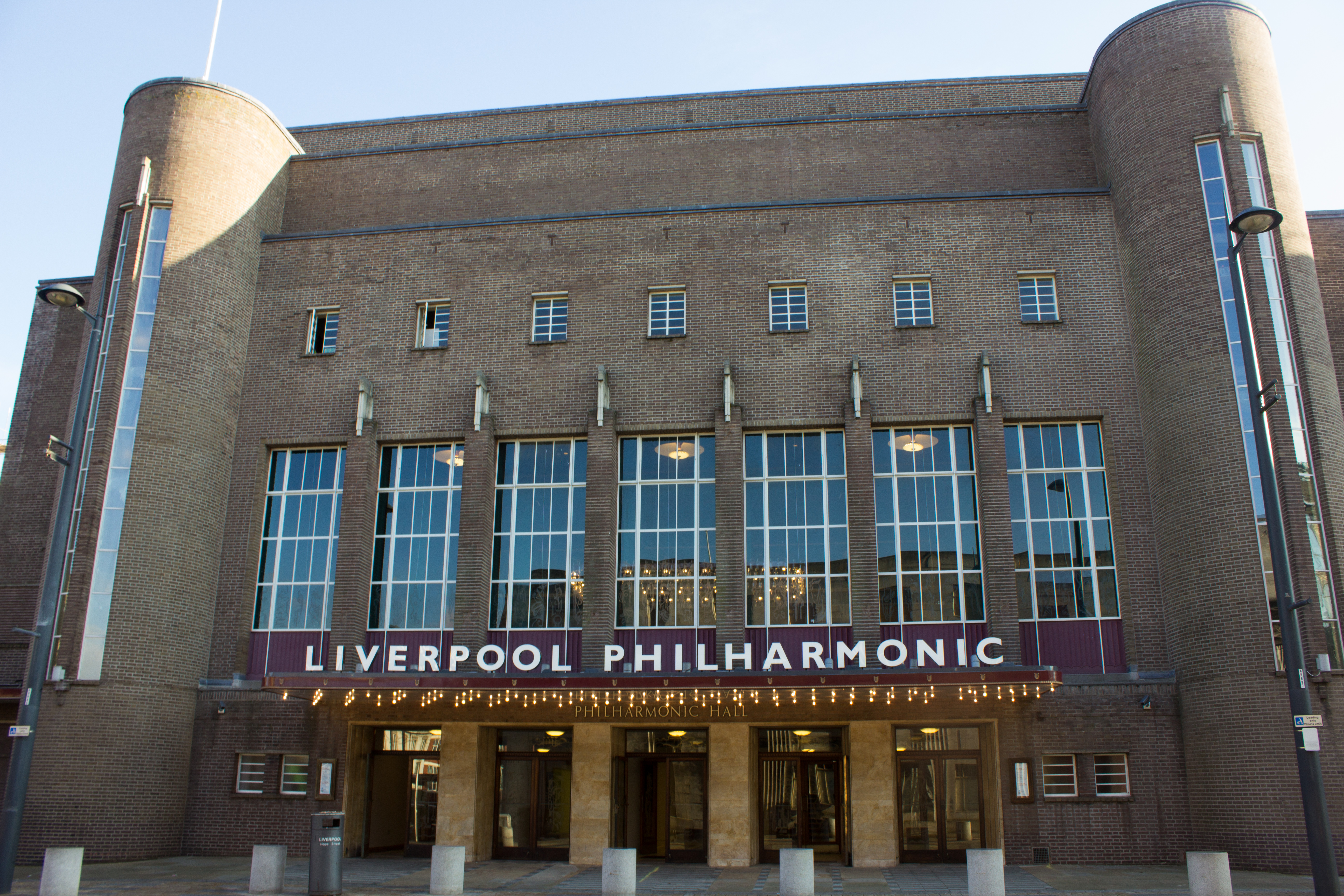 The Philharmonic Hall in Liverpool front entrance after renovation.